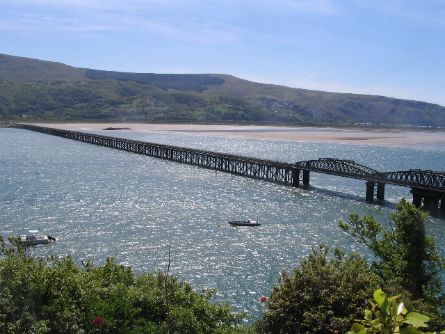 Barmouth bridge Barmouth bridge carries the Cambrian Coast railway across the Mawddach estuary. Opened in 1867, it was rebuilt in 1899 to alter the opening spans from sliding ones to the swinging span seen here at the near end of the bridge. Apart from the opening spans the bridge is a timber trestle. Plans to withdraw the Coast Line in 1971 met with organised opposition in the shape of the Cambrian Coast Line Action Group who successfully lobbied against closure. Another threat to the bridge came in 1980 when it was discovered that the teredo worm had infested the footings of the timber section and made it unsafe. The action group were again involved and ultimately extensive repairs were made and rail traffic continues to run from Machynlleth to Pwllheli along the coast. The rocks on the sands beyond the bridge are Cerrig-y-gorllwyn.